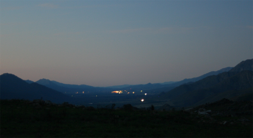 At view from the Cederberg mountain rage of Citrusdal and some surrounding mountains at dusk.